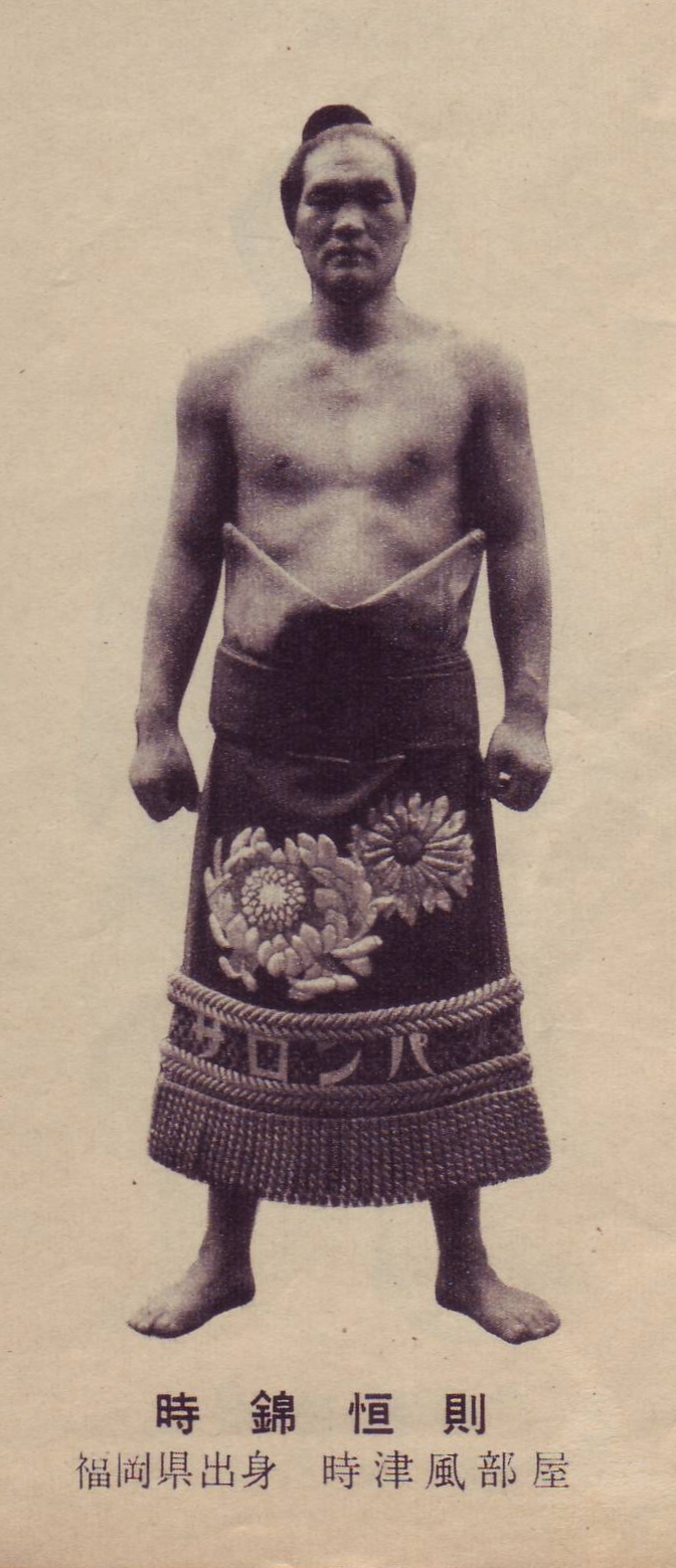 Tokinishiki Tsunenori (Sumo wrestler from Japan. Komusubi). taken in 1958, or before that.